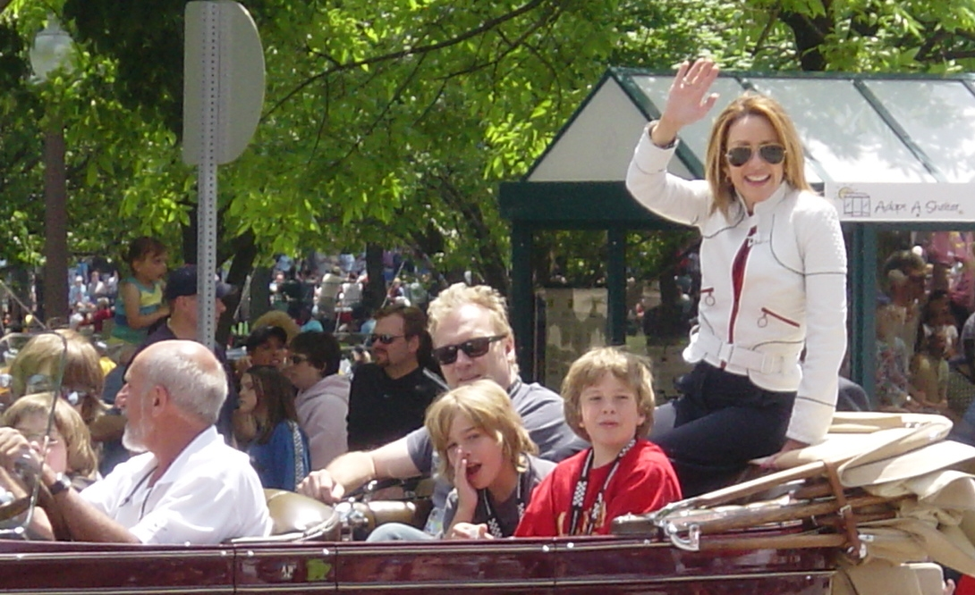 Photo of actress Patricia Heaton and family in parade, May 2008. Cropped from source photo.